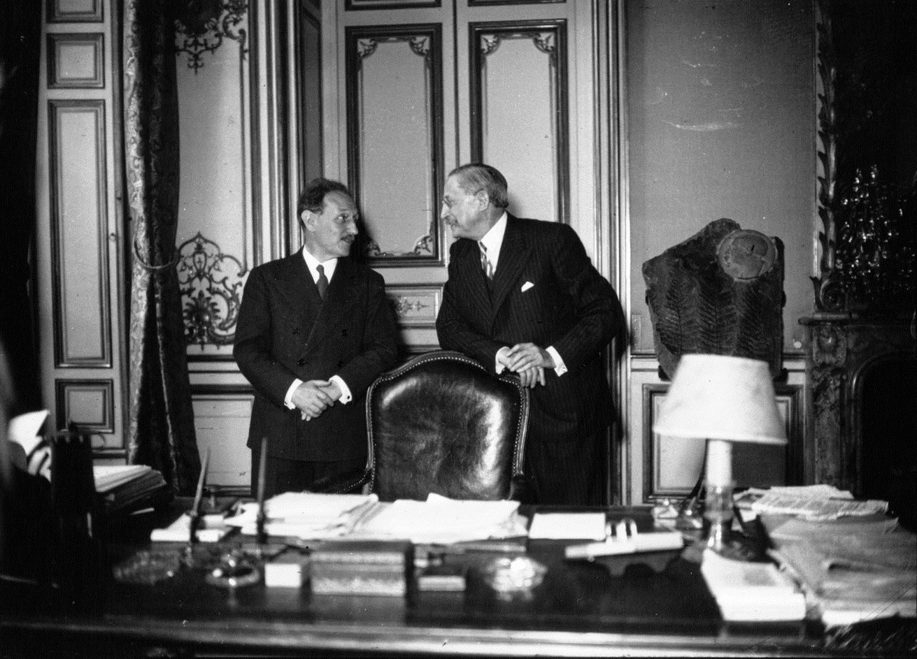 Léon Blum (right) handing over office to the new Prime Minister Camille Chautemps at the Hôtel Matignon in Paris in 1937.